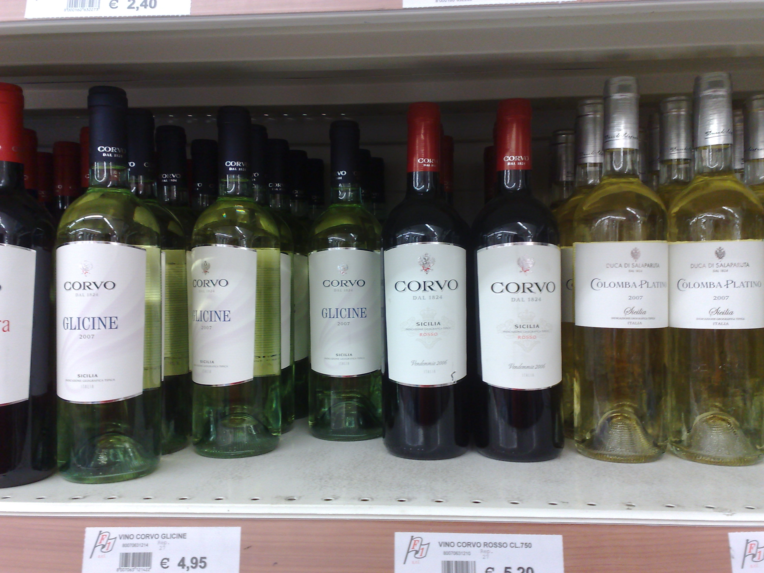 "Corvo" wine, from Sicily